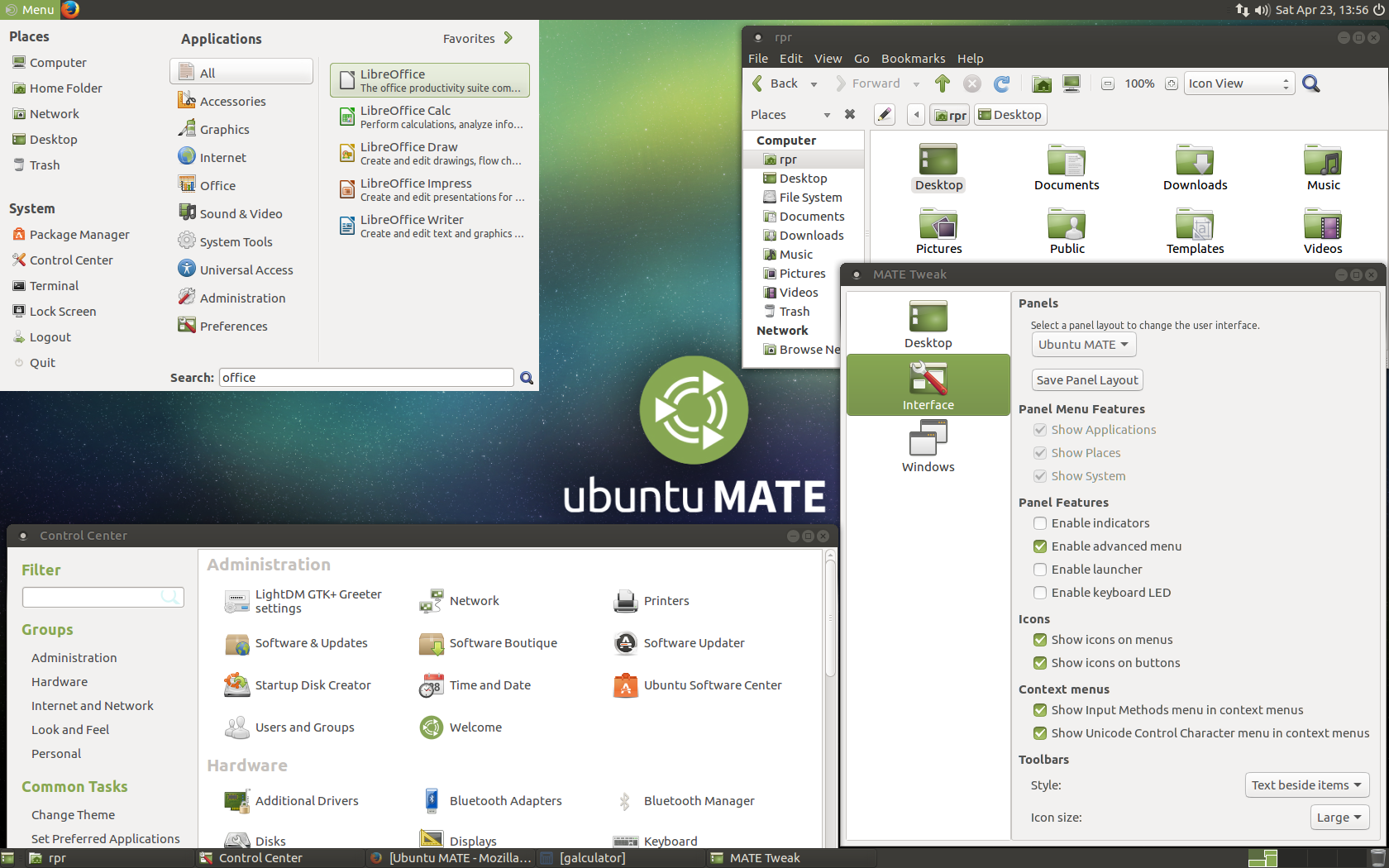 Screenshot of Ubuntu MATE 16.04 desktop with advanced menu enabled. Compiled from various visual elements of free software.